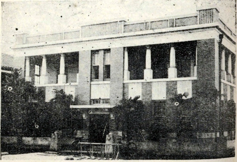 Sanjūshi-ginkō, Takao